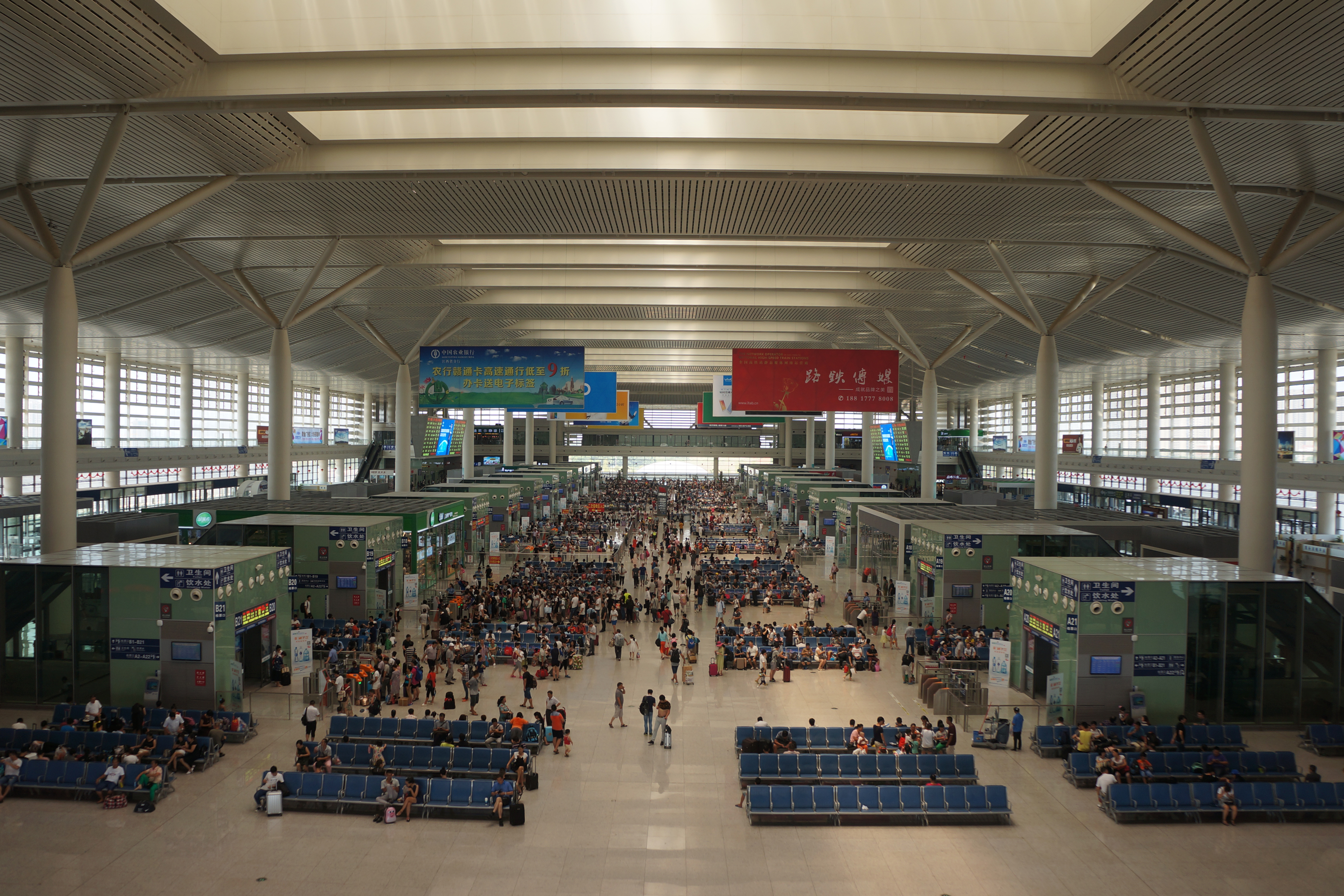 201608 Waiting Room of Nanchangxi Station